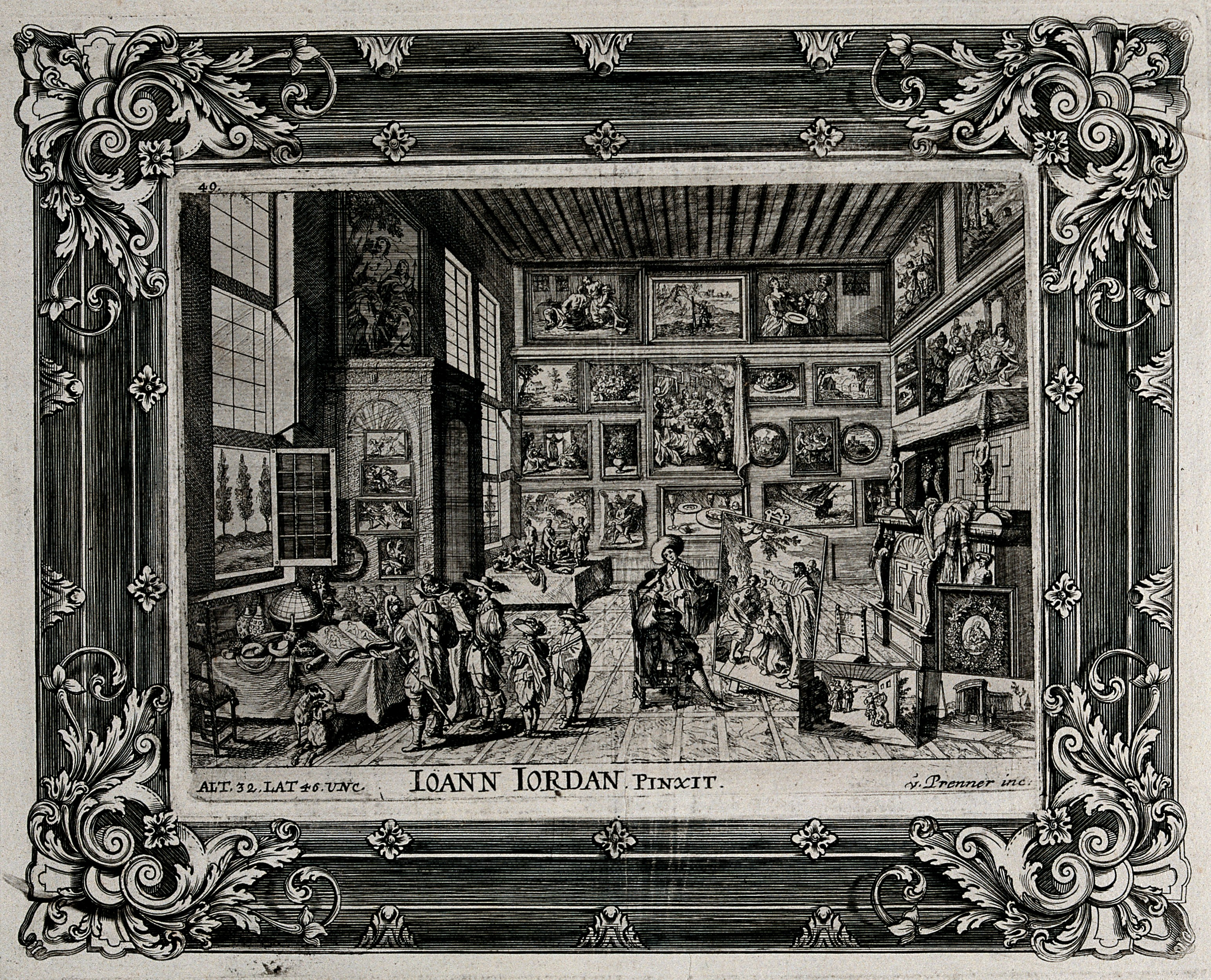 The interior of a gallery hung with paintings and with tables laden with sculpture and curiosities. Iconographic Collections Keywords: Hans Jordaens; Anton Joseph von Prenner (1683 – 1761)